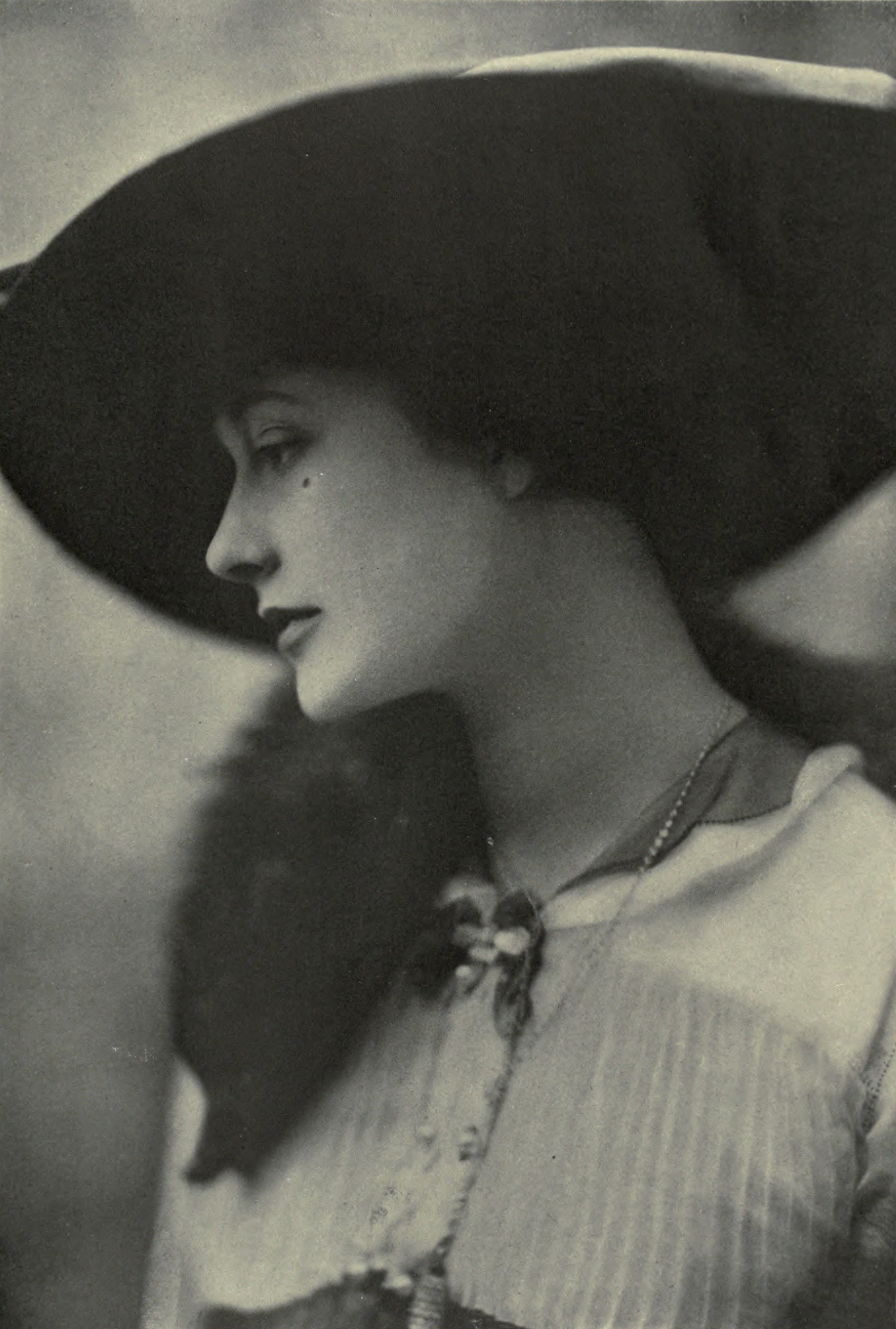 Actress Elsie Ferguson